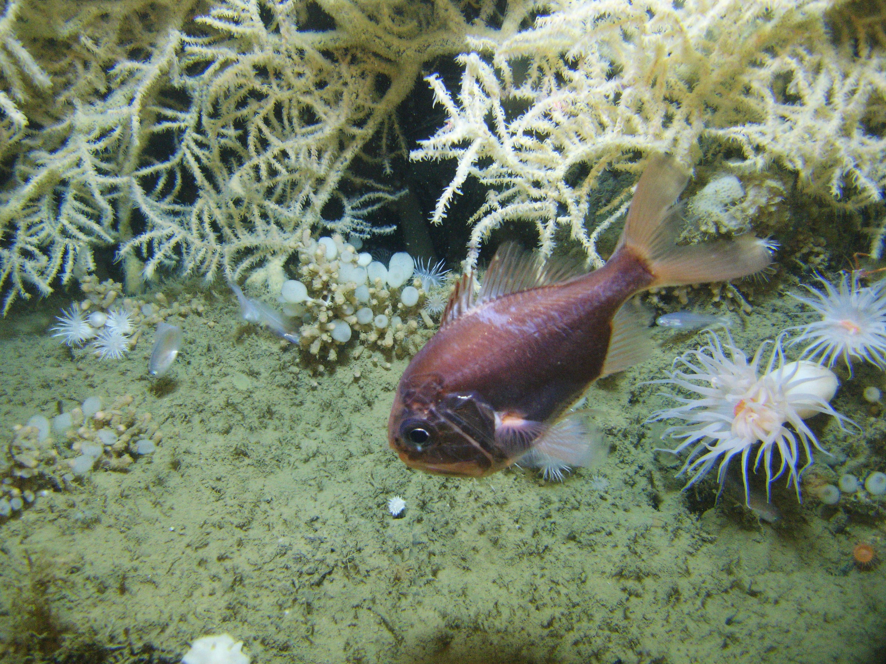 Deep sea fish. Atlantic roughy, Hoplostethus occidentalis, swimming over a topographic high covered with Lophelia pertusa.